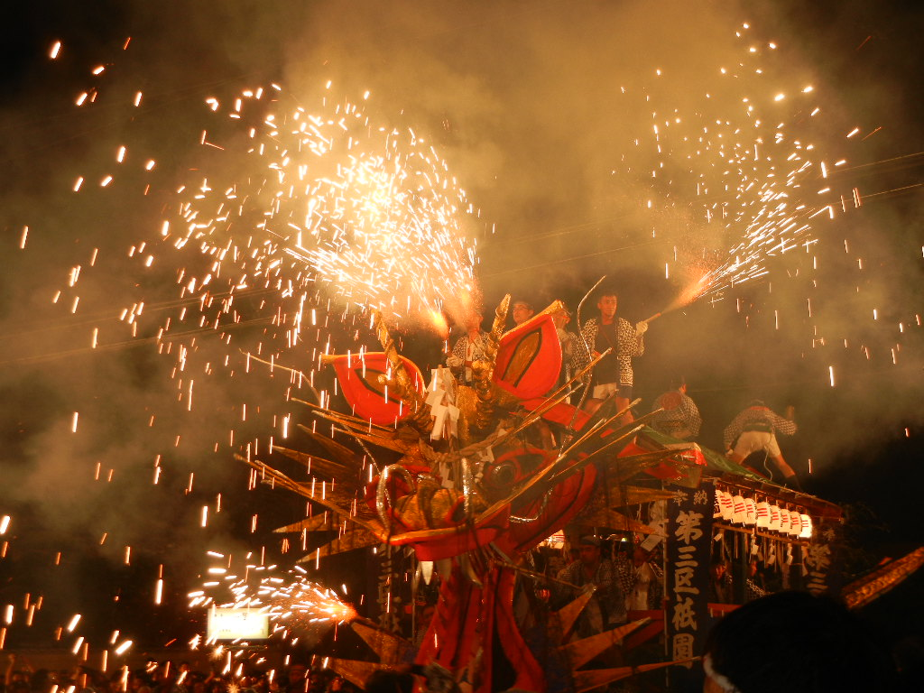 Daija-yama. 大蛇山, Omuta.